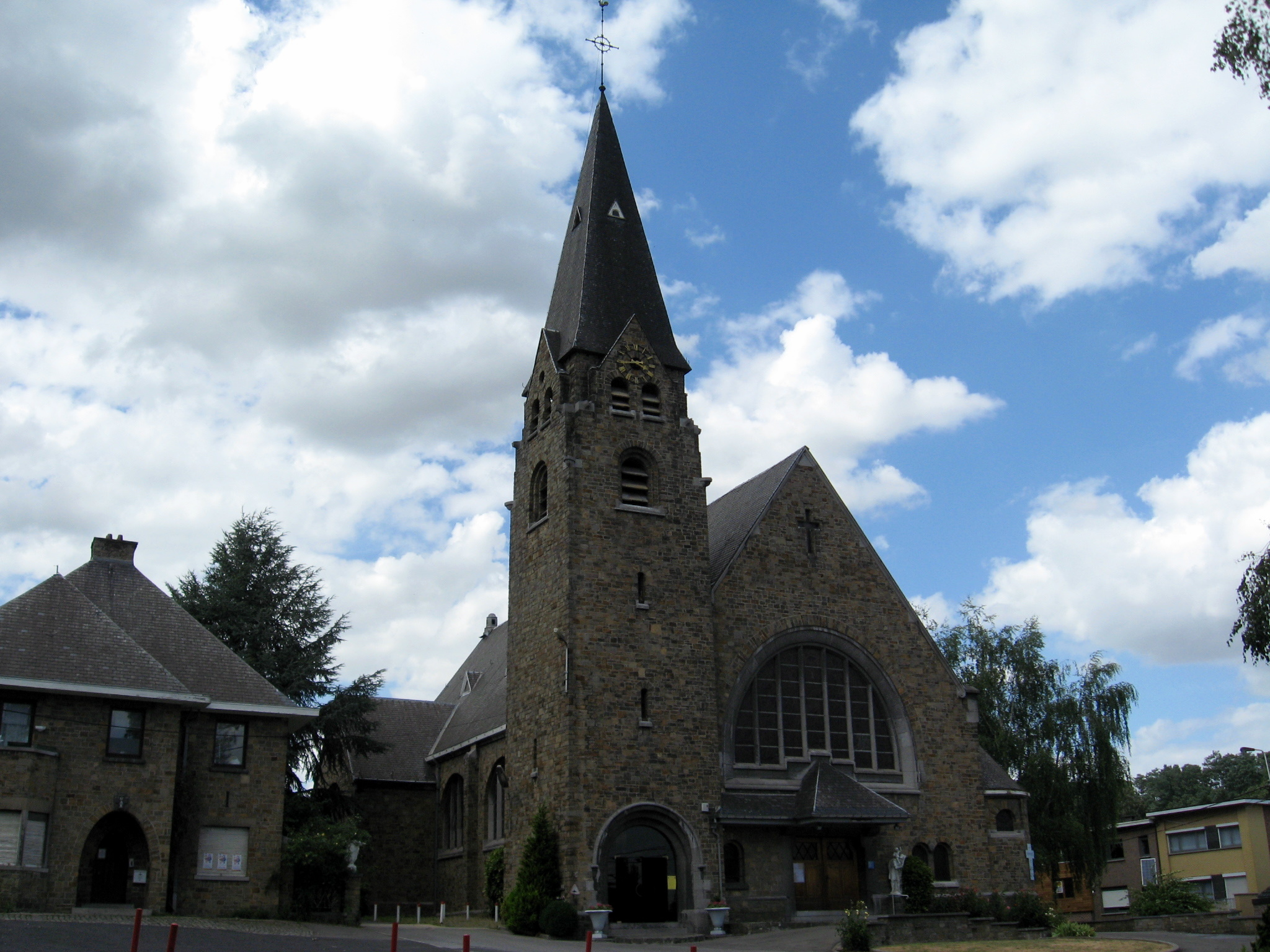 Church of Our Lady of Perpetual Help in Pontisse, Herstal, Liège, Belgium